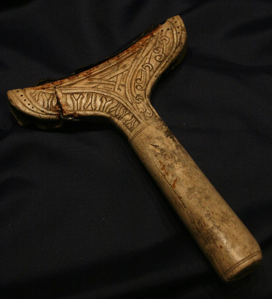 The photo is a decorated horn Sami (Shaman) runic drum hammer about 800 years old. Runebomme. Found in southeastern Norway. Read more in